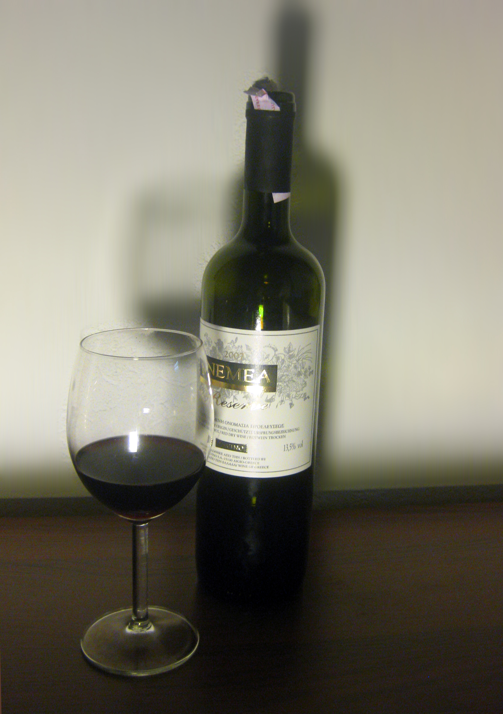 Cavino "Nemea Reserve", 2007. Made of 100% Agiorgitiko